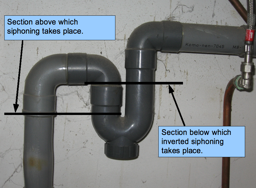 Additional information to go with Image:Sifon.JPG. Indicated is information to clarify functioning, see article Siphon.